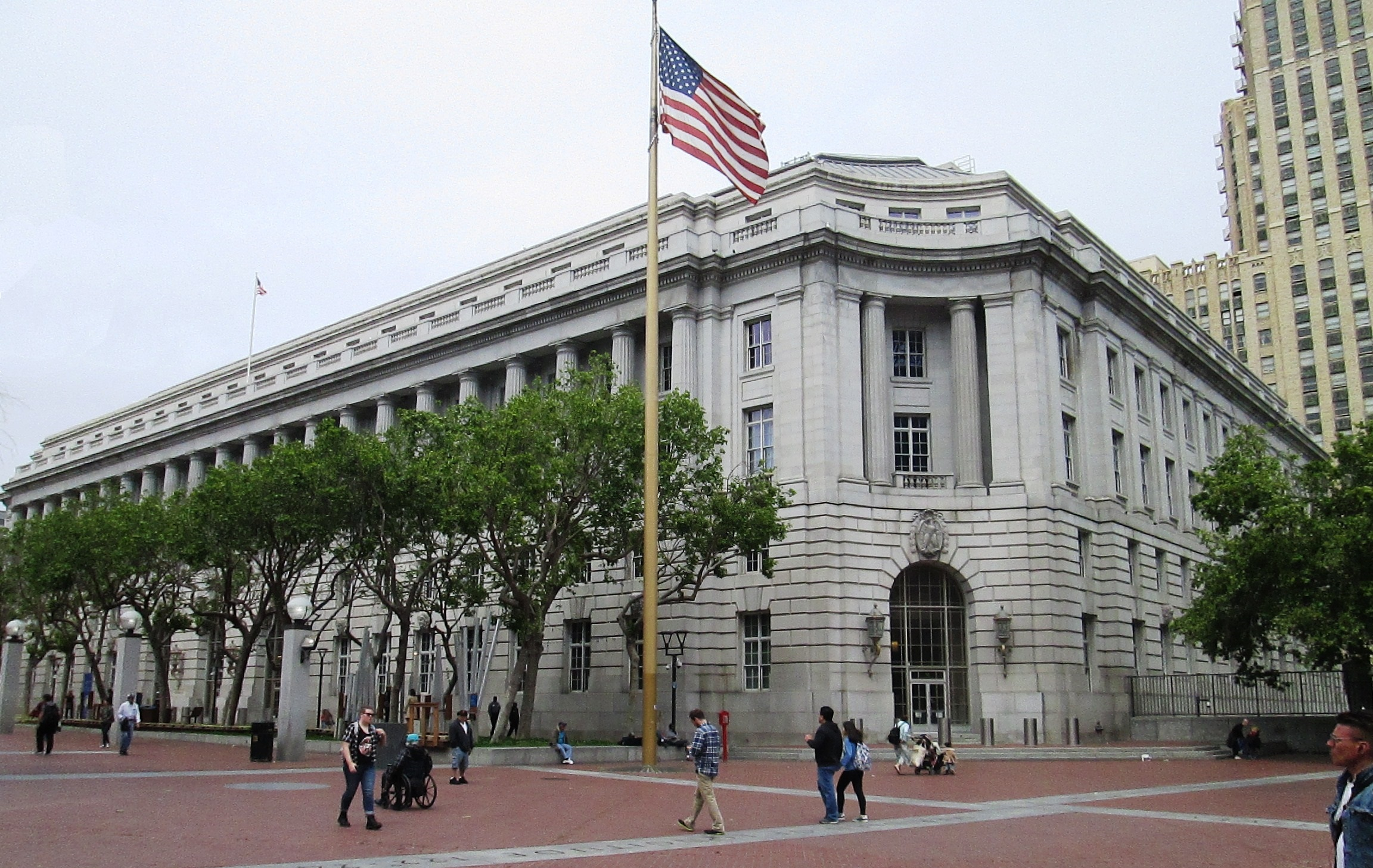 The 50 United Nations Plaza Federal Office Building, located on United Nations Plaza between Hyde and McAllister Streets, was built in 1934-36 on land donated by the City of San Francisco, as part of the city's master plan to revitalize the city's Civic Center after the devastation caused by the earthquake and fire of 1906. The building was designed by Arthur Brown Jr. in the Second Renaissance Revival style. The building is listed on the National Register of Historic Places, and is a contributing property to the San Francisco Civic Center Historic District, which is a National Historic Landmark.